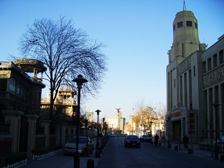 View of Minzu Lu and Marco Polo Square in Hebei District, Tianjin